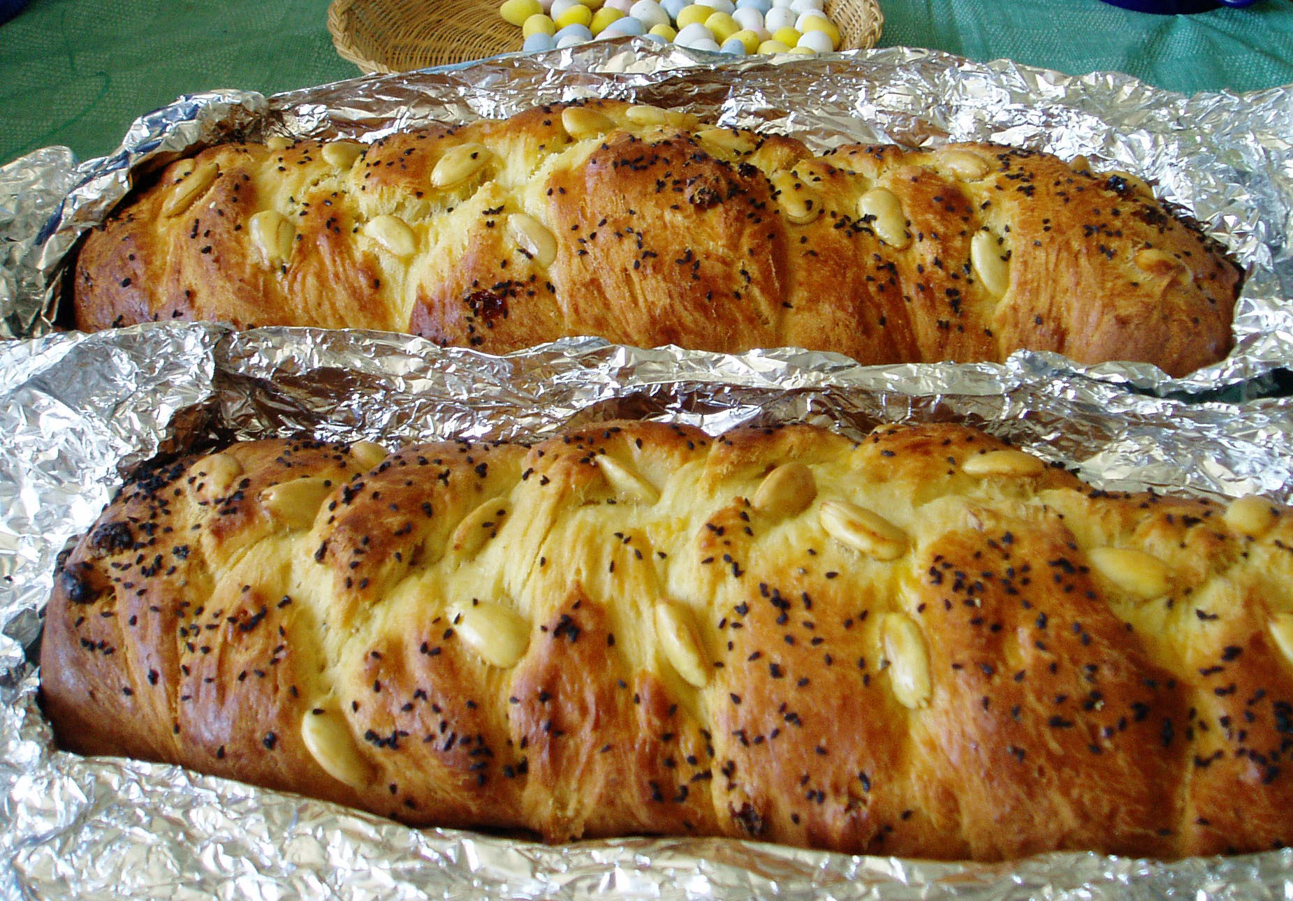 Photograph by user:Augustgrahl of choereg at an Armenian-American Easter celebration.